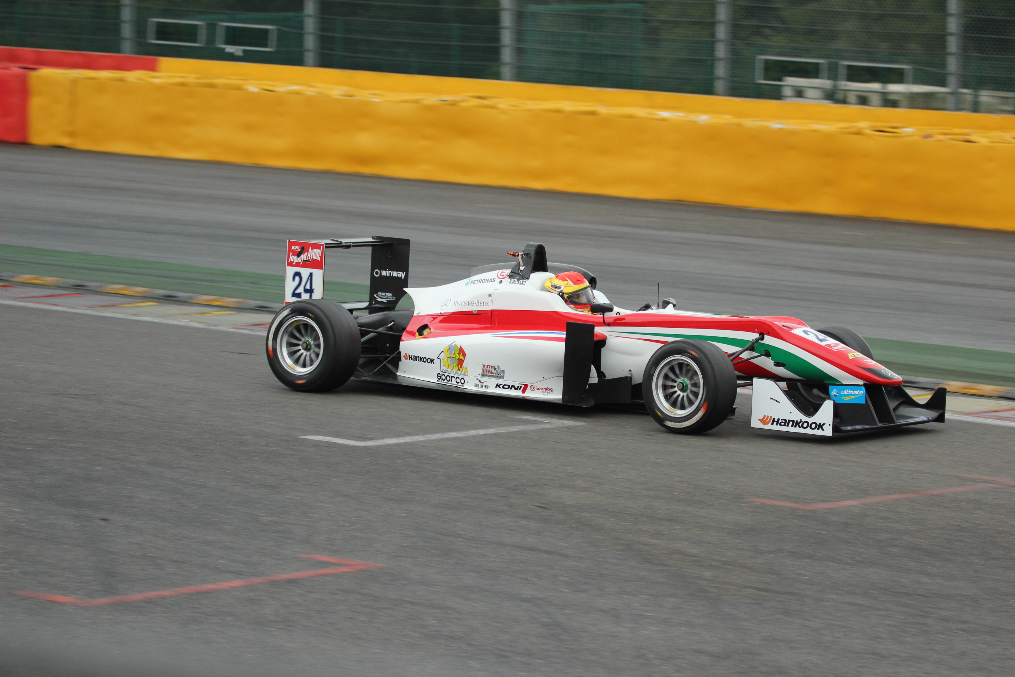 Brandon Maisano at Spa in 2015, European Formula 3 Championship